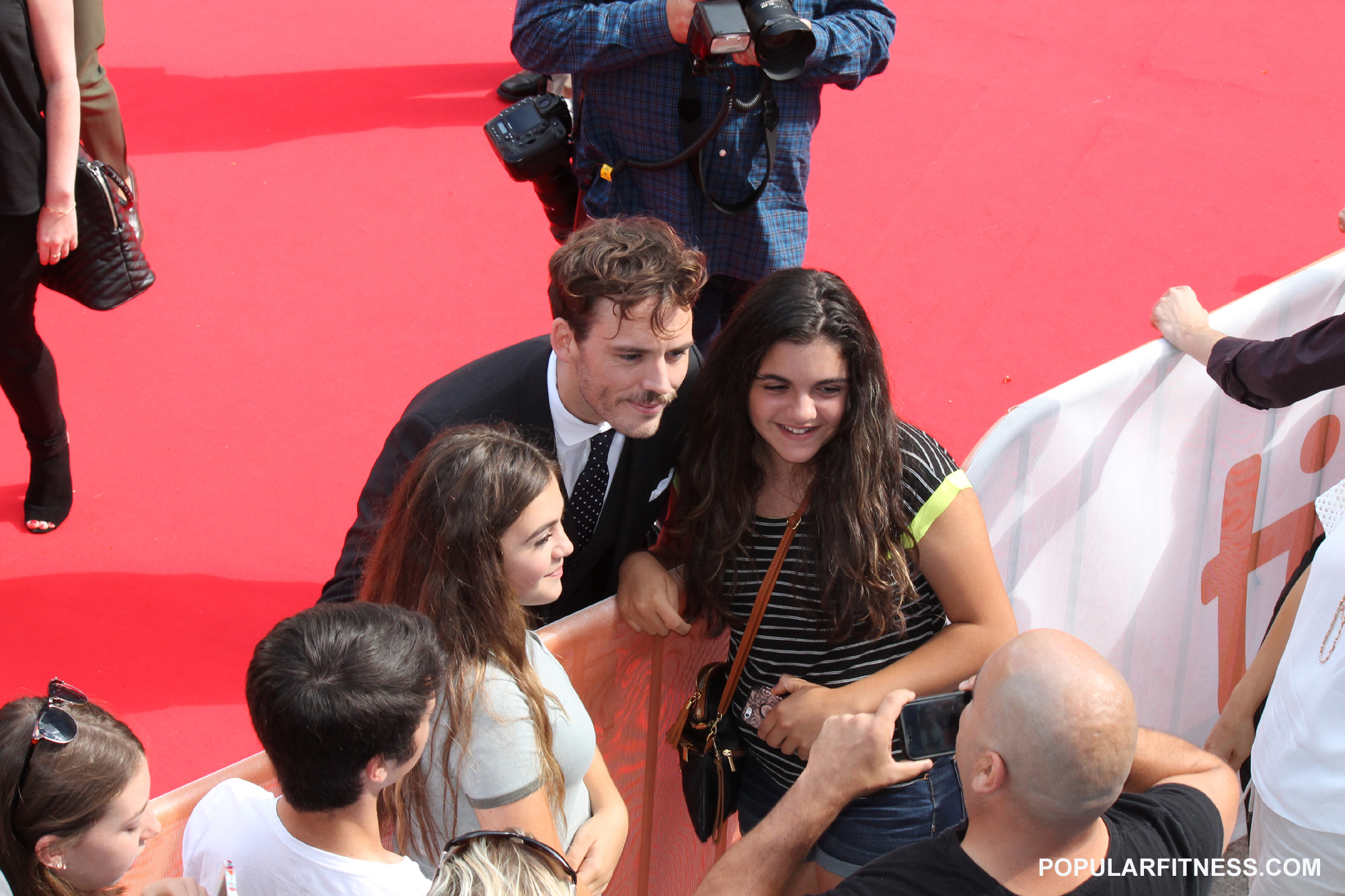 Selfie close-up with 2 girls of Sam Claflin at 2016 Toronto International Film Festival for the film Their Finest - #TIFF16.